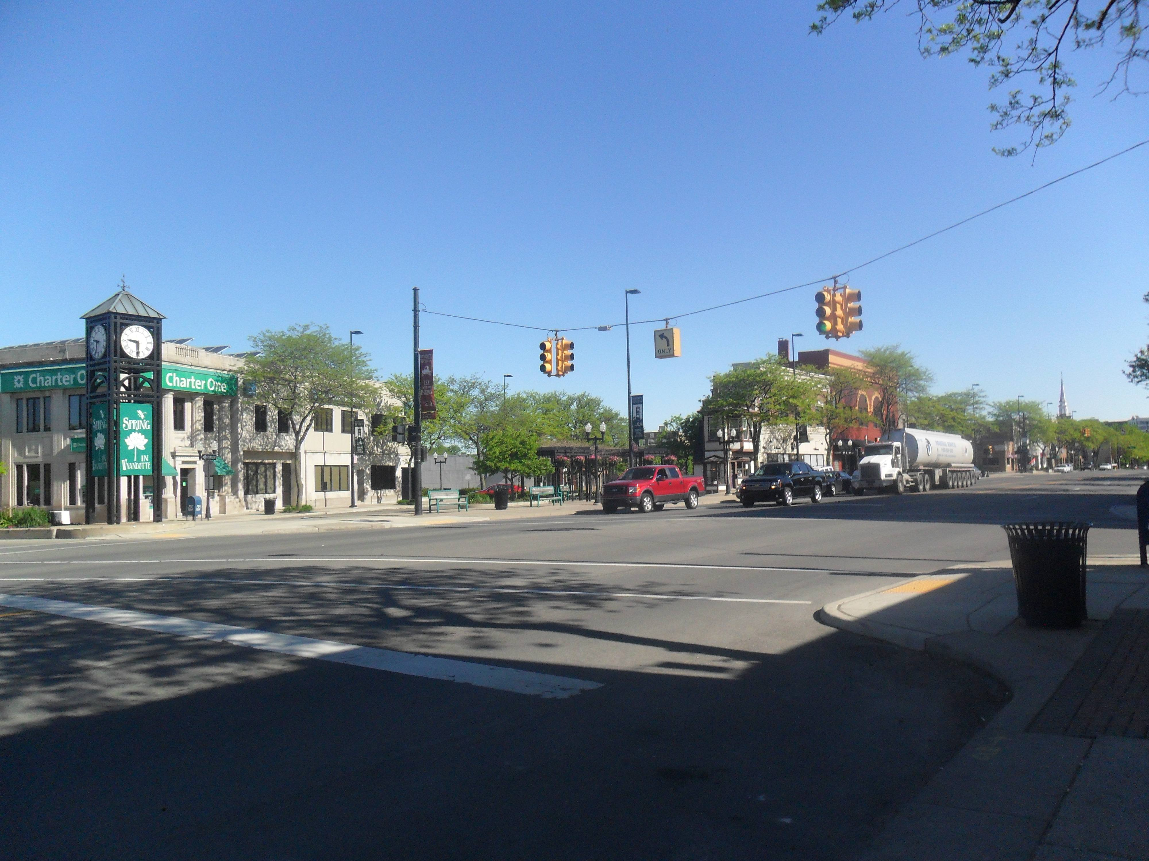 Downtown Wyandotte. Taken by me on May 23, 2014.